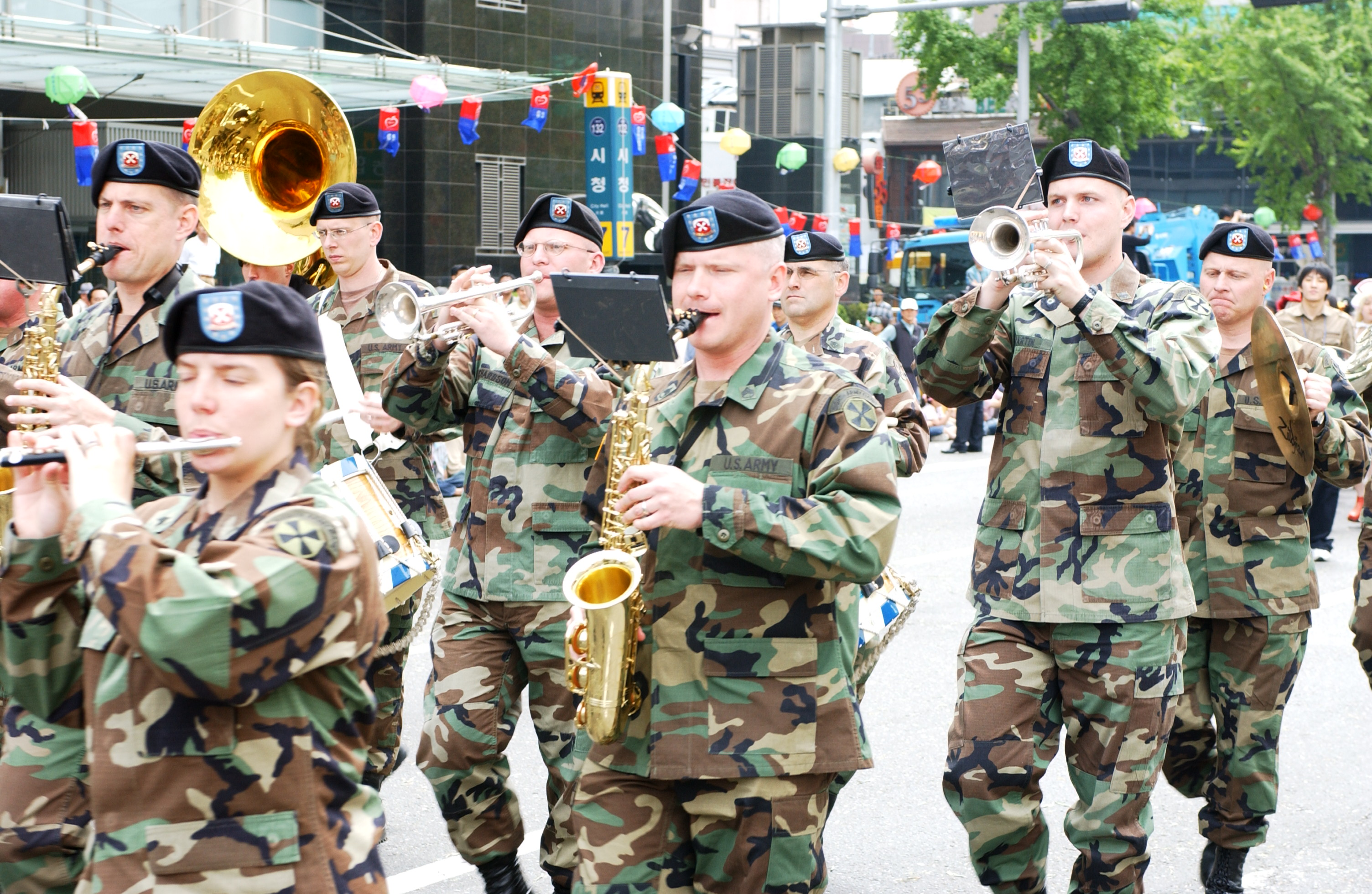 Soldiers of the United States Army's Eighth Army Band at a parade in metropolitan Seoul, South Korea